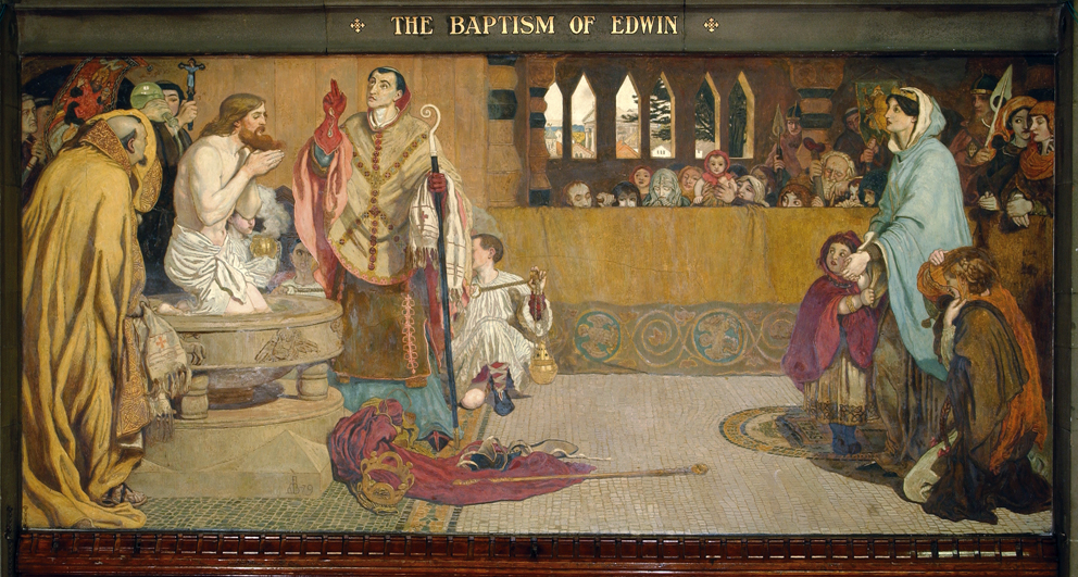 "The Baptism of Edwin" by Ford Madox Brown, a mural at Manchester Town Hall.